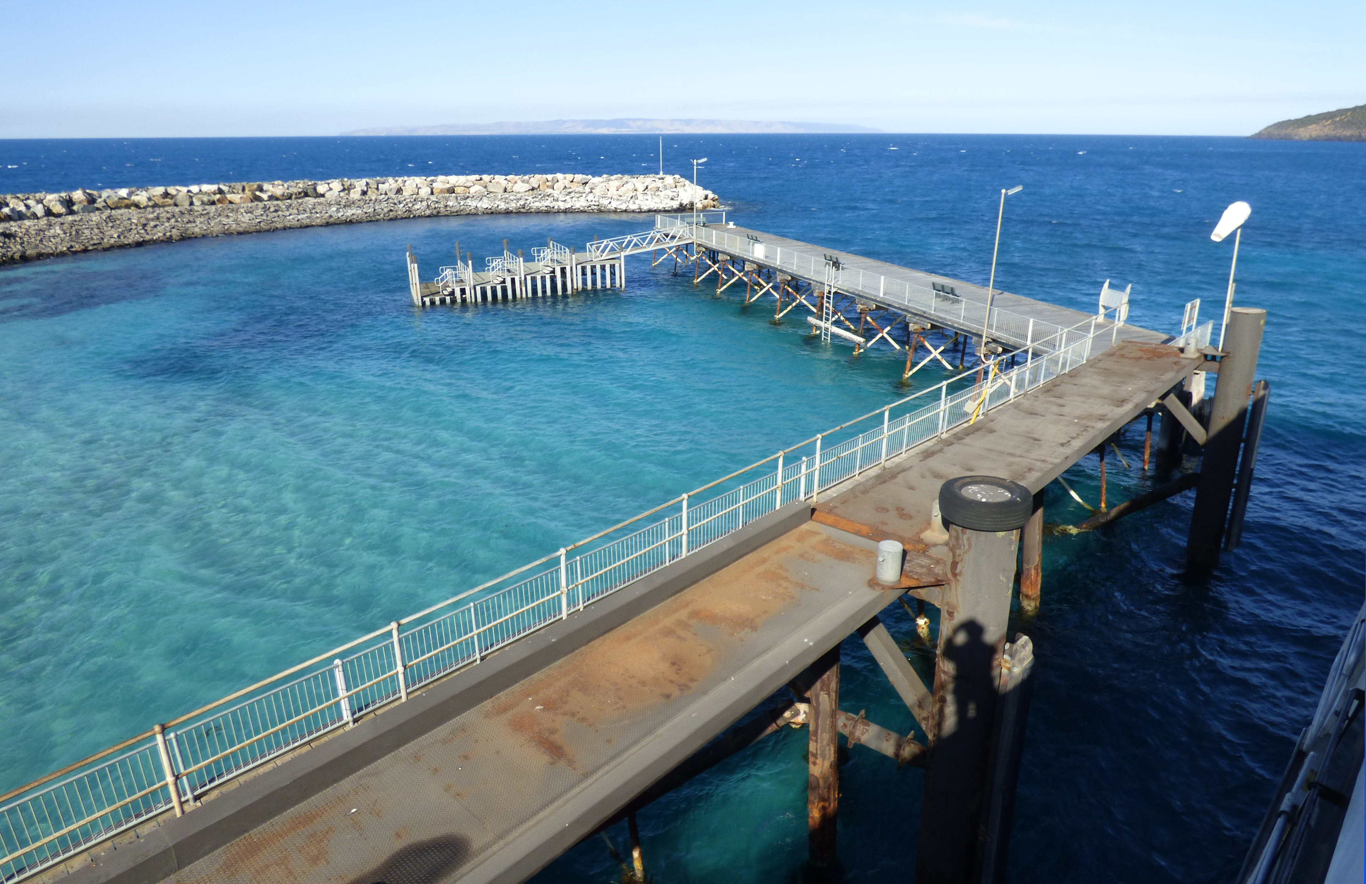 Penneshaw Jetty, Kangaroo Island viewed from the Sealink ferry